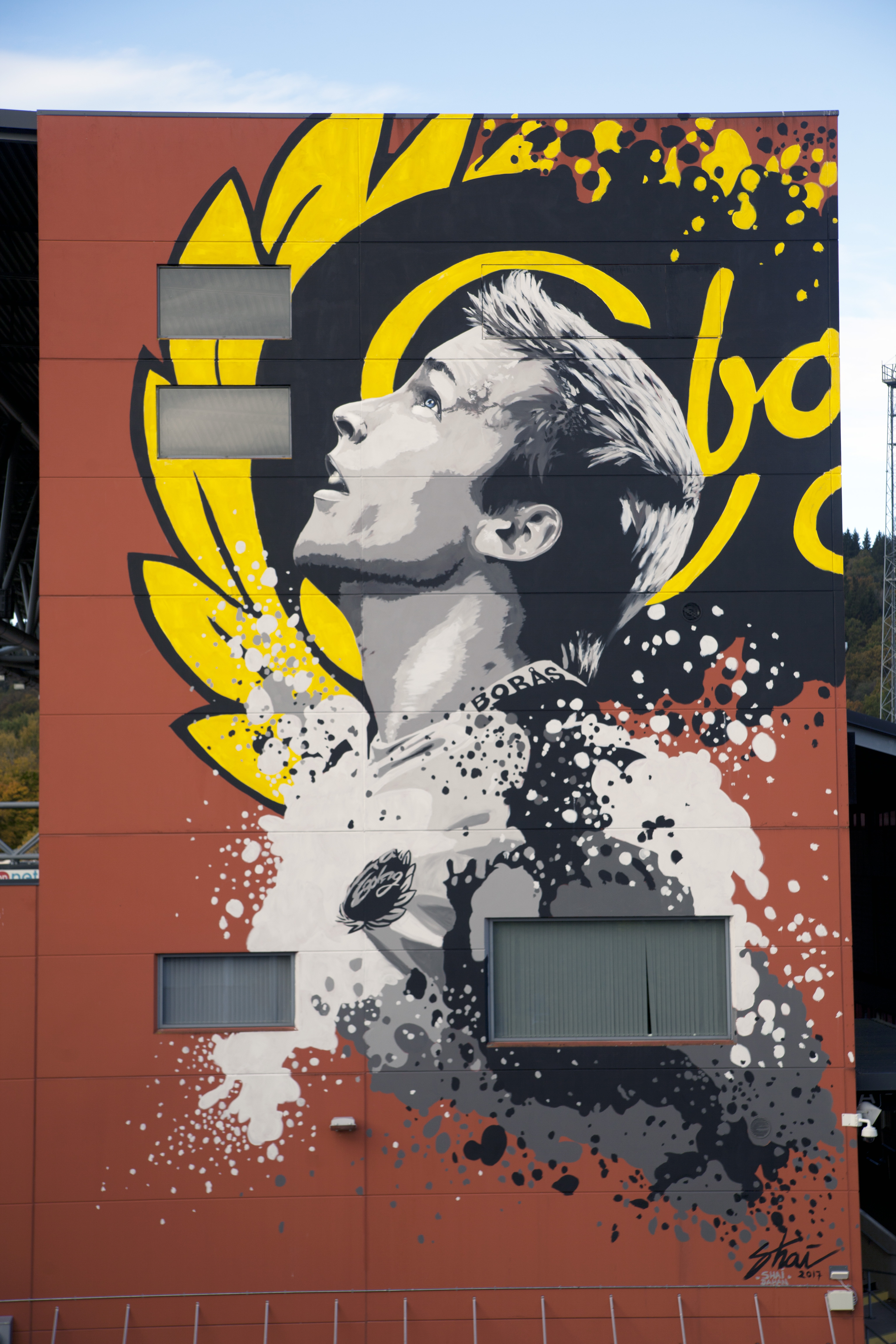 Mural of football player Anders Svensson painted by Shai Dahan on September,2017 at Boras Arena in Sweden.